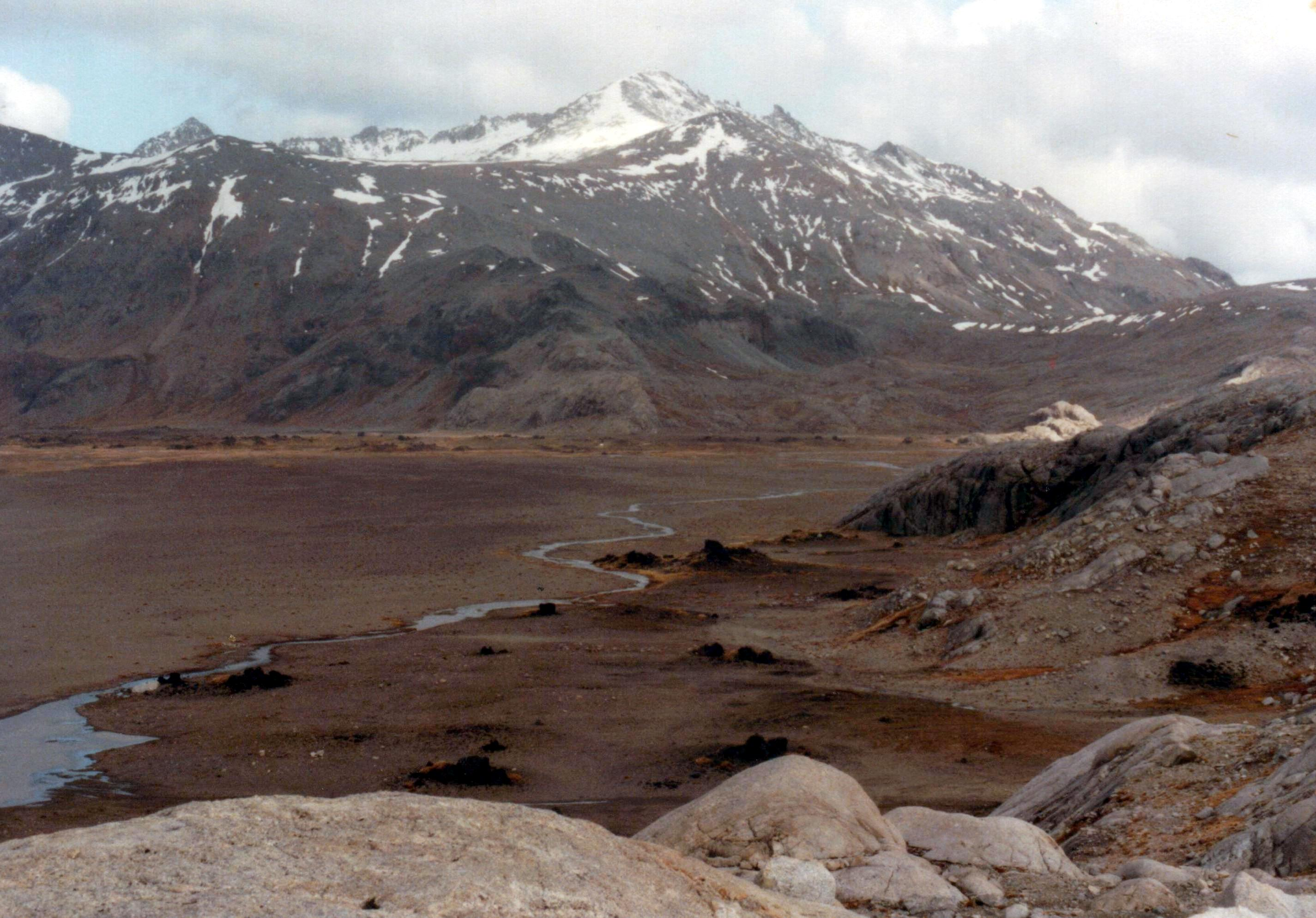 Rallier du Baty peninsula, South-West of Grande Terre, the main island of Kerguelen archipelago